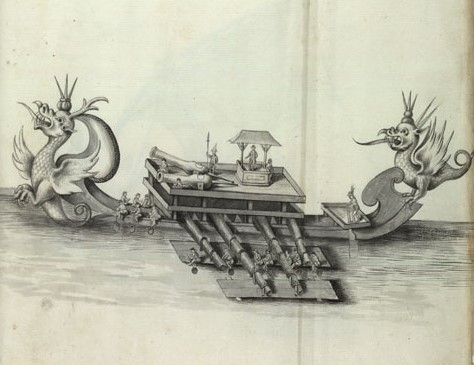 A korakora from North Maluku; from a manuscript by Gabriel Rebello, 1561.